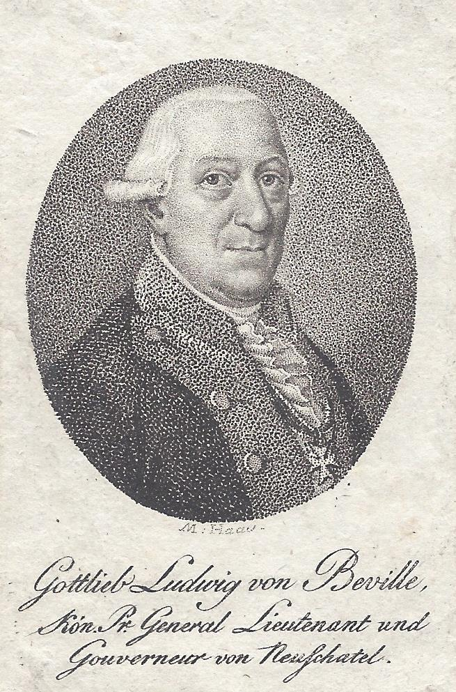 Meno Haas (1752-1832): Gottlieb Ludwig von Beville, Punktierstich um 1800